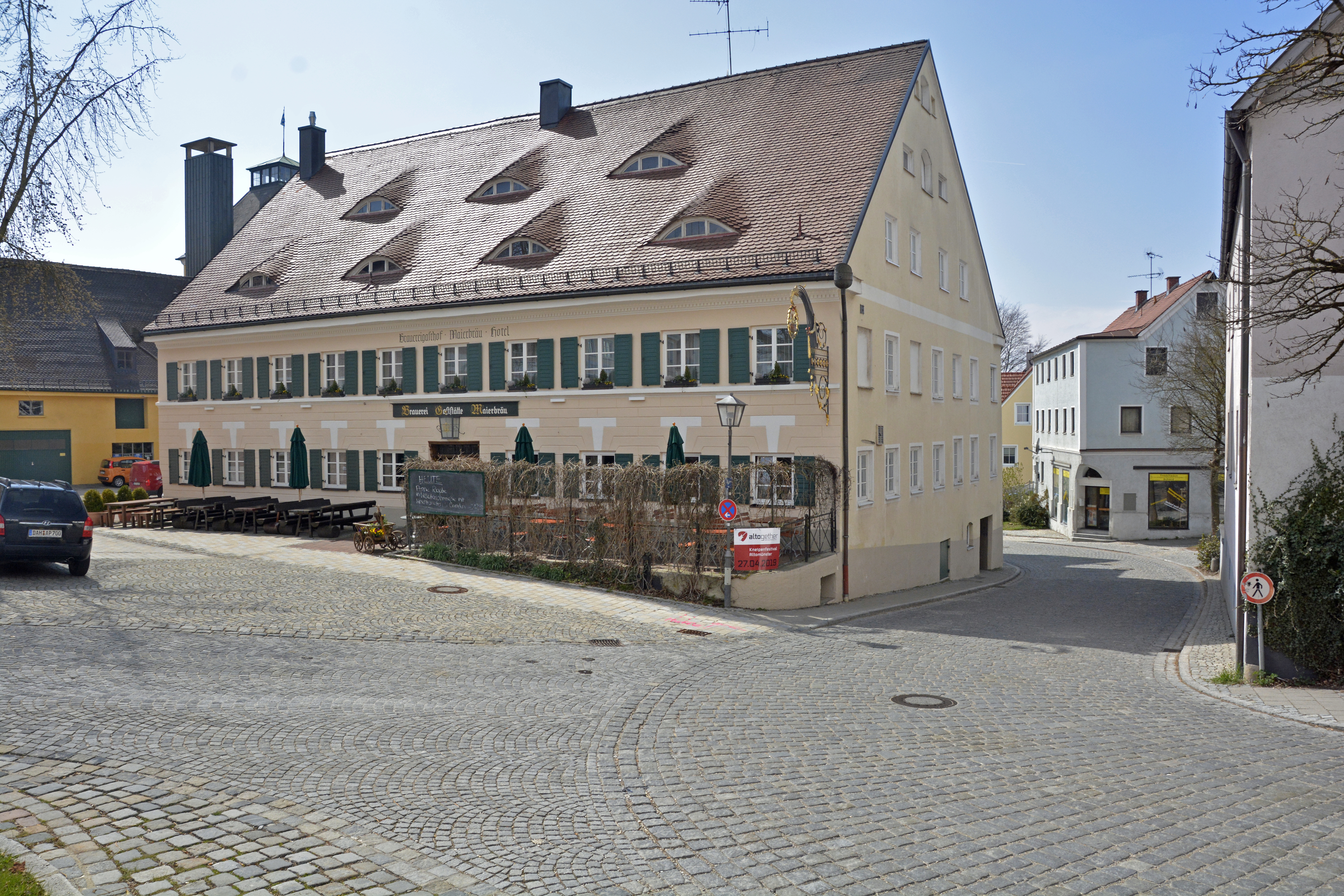 Brewery Inn and Hotel Maierbraeu, Altomuenster, District of Dachau